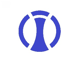 Flag of Fuso Aichi